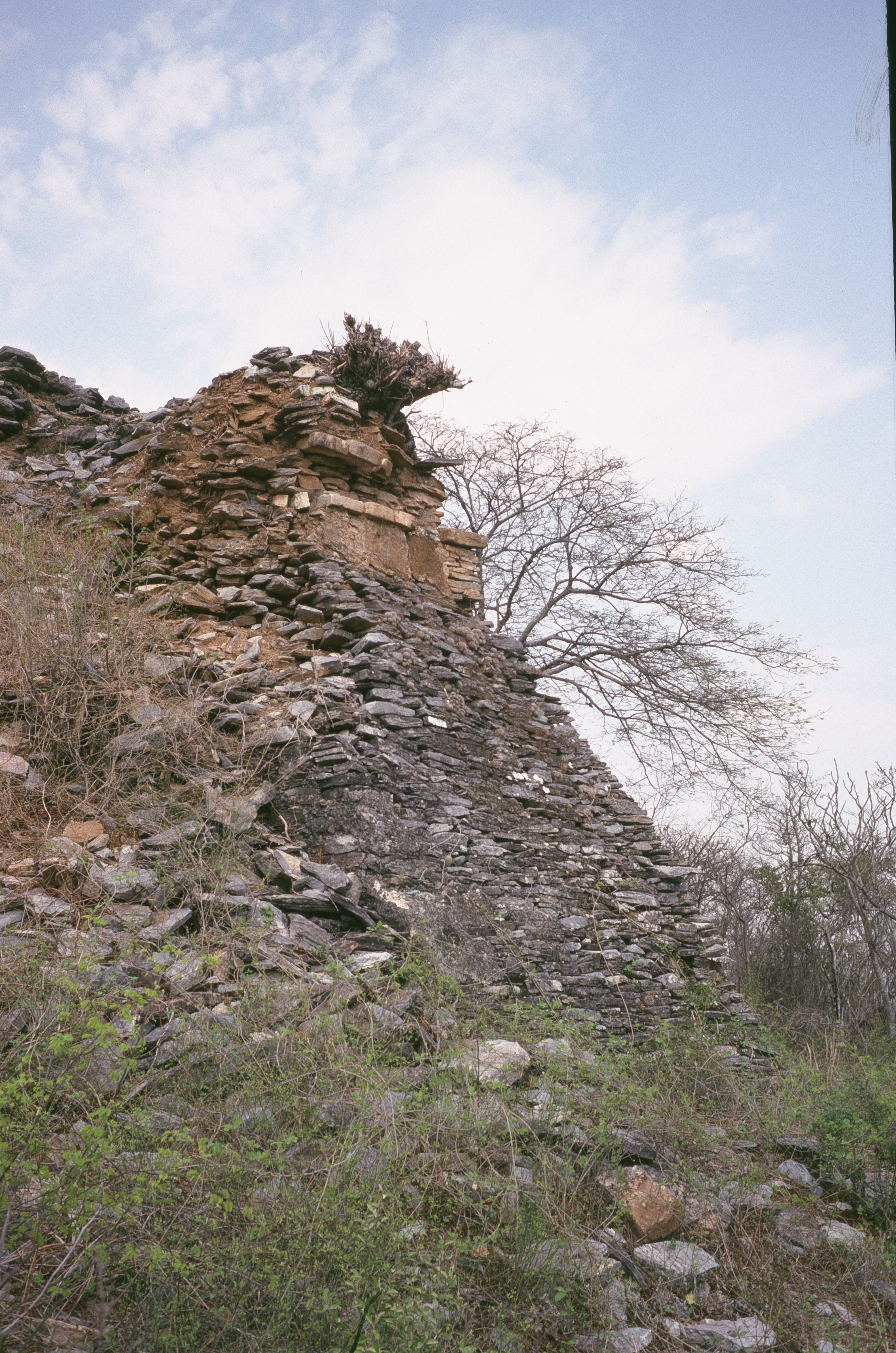 Guiengola, Oaxaca, Mexico: stairway of west pyramid